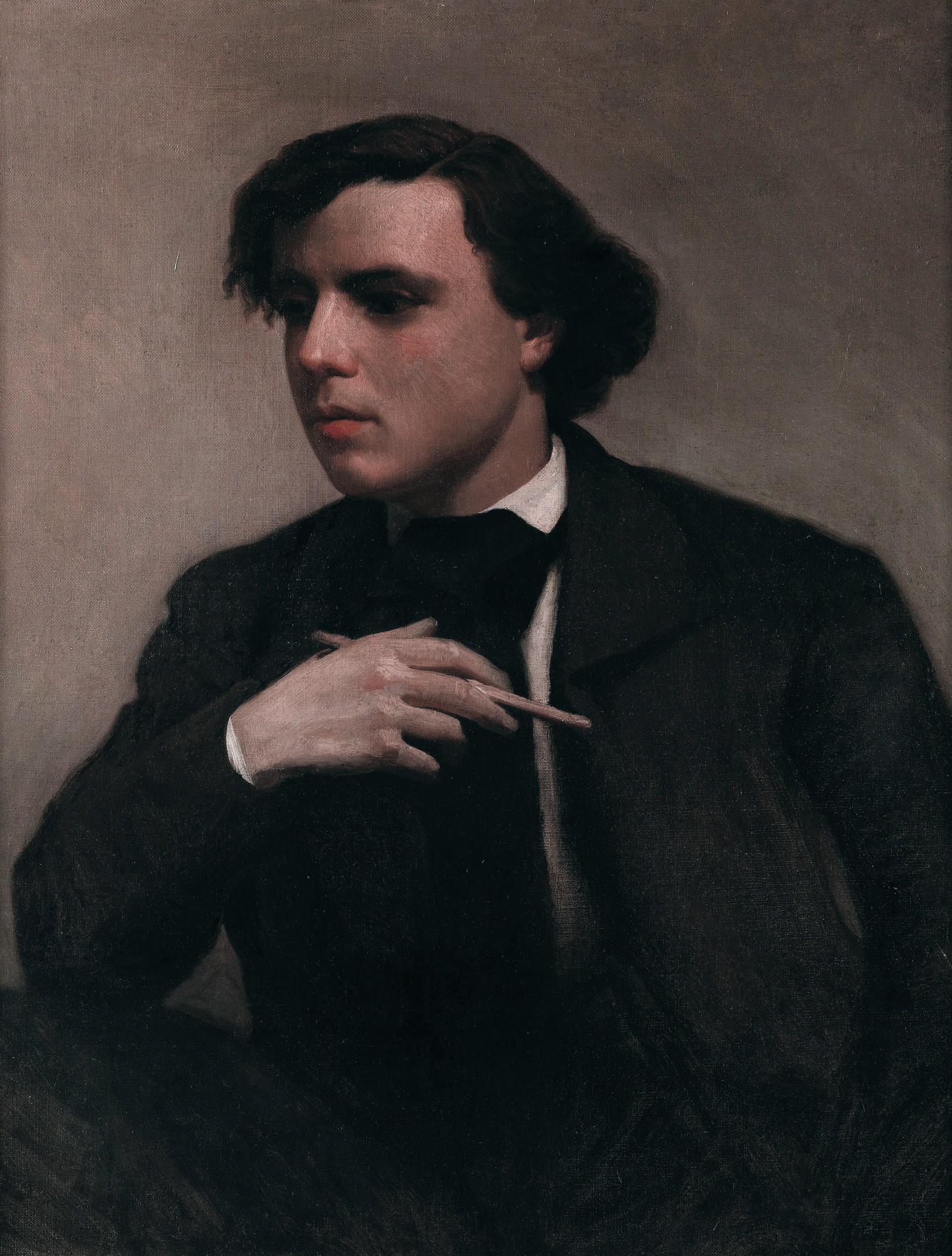 Ferdinand Chaigneau oil on canvas 77 x 60 cm